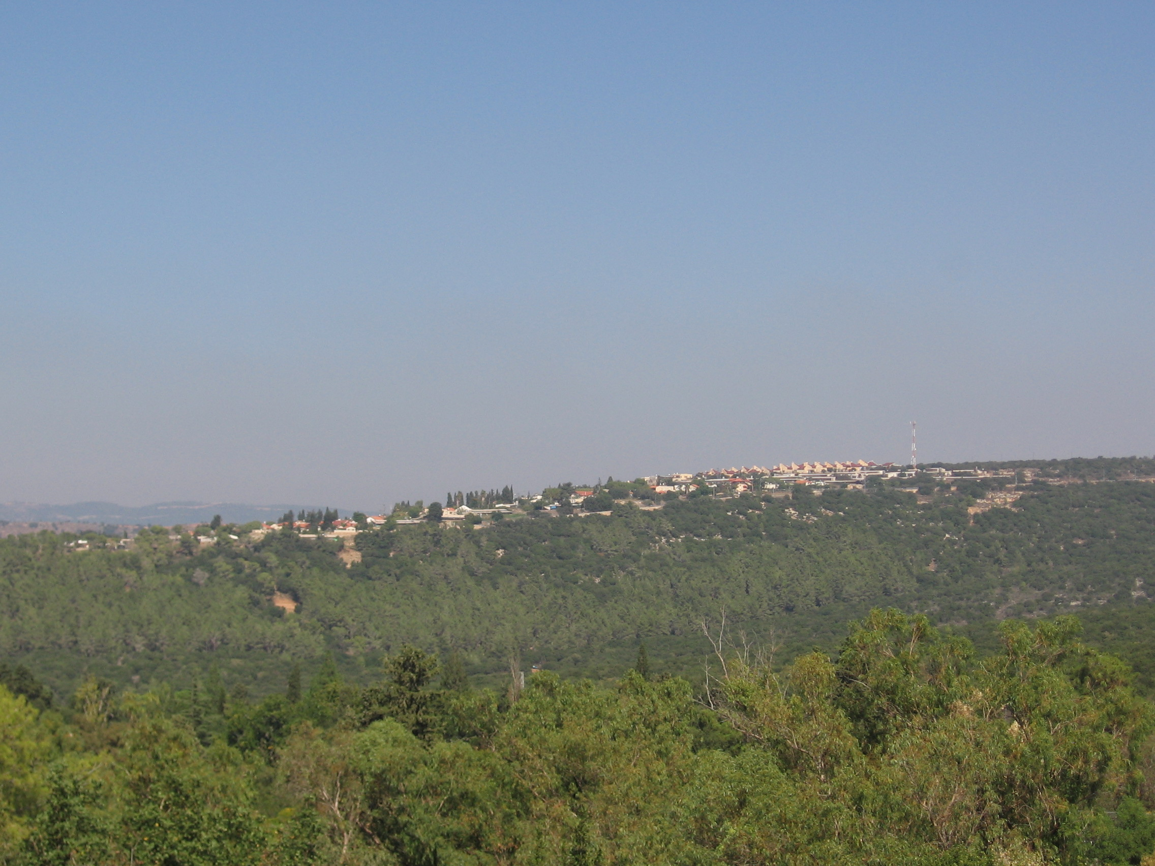 Goren and Gornot Hagalil in the Galilee Mountains, Israel